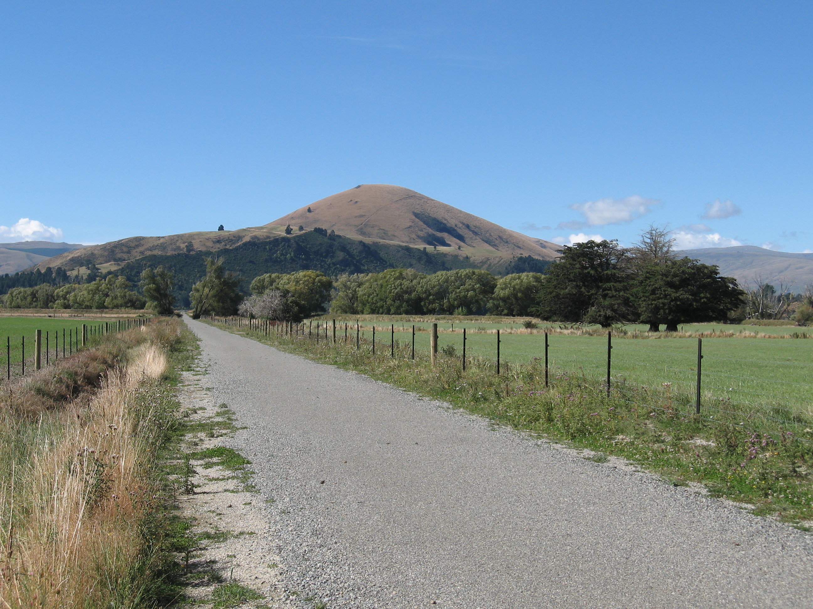 The cycle trail near Athol with Round Hill in the background.